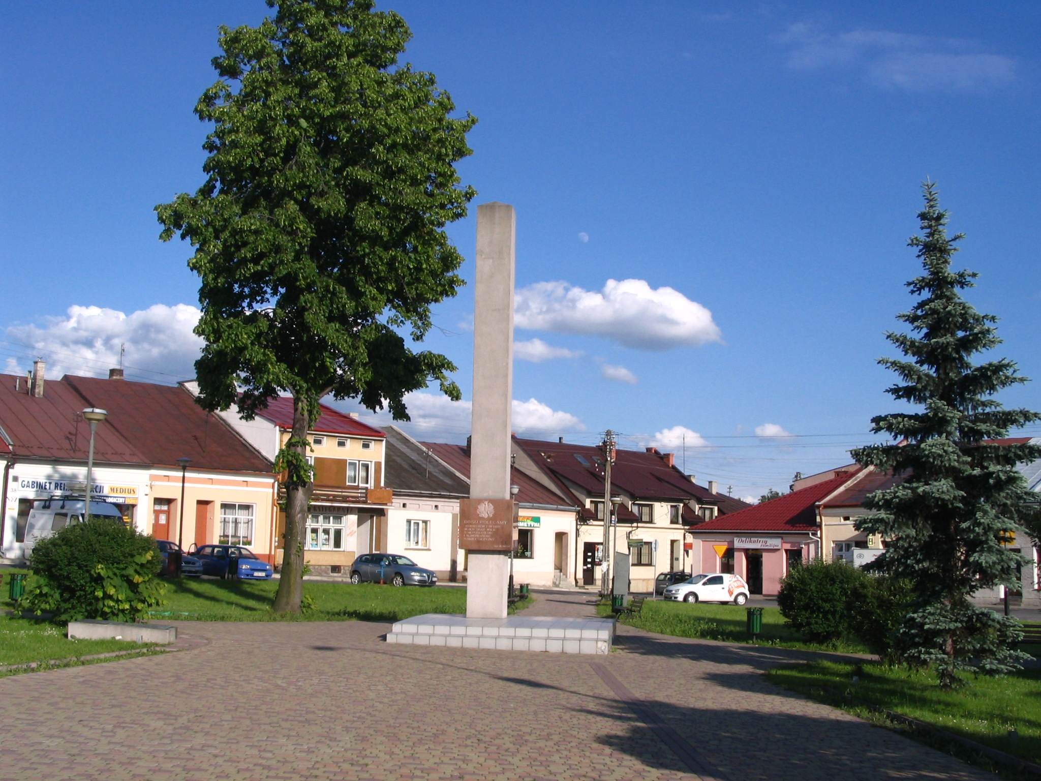 description en: A fragment of the main square in Głogów Małopolski (small city in south-eastern Poland) with a monument commemorating those who died fighting for the homeland in the forehead. opis pl: Fragment rynku w Głogowie Małopolski z pomnikiem upamiętniających bohaterów i ofiary walk za Ojczyznę. author/autor: Gardomir (polish wiki:[1]) source/źródło: a photograph taken by me (fotografia wykonana przeze mnie)